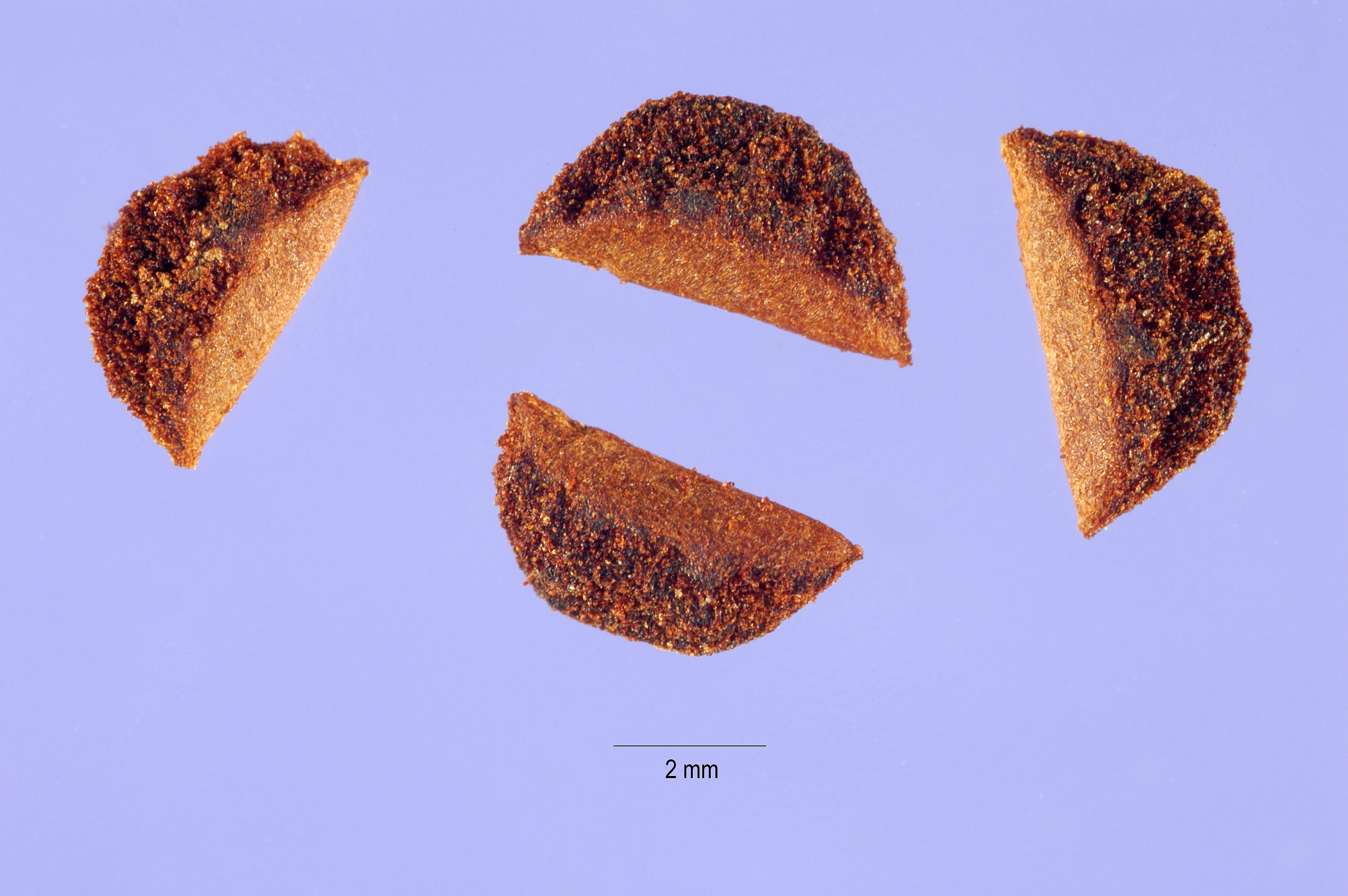 seeds of Arctostaphylos nevadensis from Steve Hurst. Provided by ARS Systematic Botany and Mycology Laboratory. United States, NV.